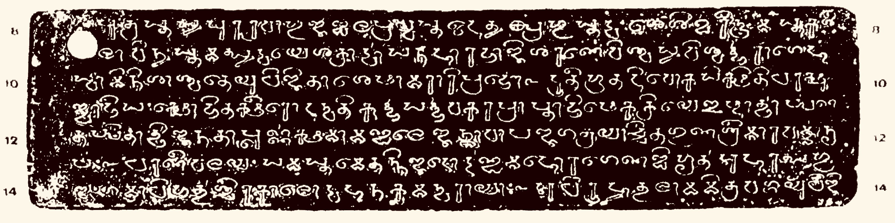 Velvikudi Grant of Nedunjadaiyan was issued about 770 CE, inscribed in a series of copper plate. The inscription is one of few where both Sanskrit language and Tamil language was written in the same grant. Sanskrit was written in Grantha script, while Tamil was written in Vatteluttu ( also called Vattezuttu ) scripts. Lines 1-30 and 142-150 were in Sanskrit, while lines 31-141 were in Tamil (except some words in these lines were borrowed from Sanskrit and were written in Grantha). The text begins by invoking the Hindu god Shiva, reverentially refers to the Pandya kings, the sage Agastya, mentions some Hindu legends such as the samudra manthan (churning of cosmic ocean), conduct of a Vedic ritual, and some historical events in the kingdom. It mentions the past charitable deeds, and records a grant of villages. It then returns to Sanskrit and reverentially recites four verses from Vaishnavism teachings (note the start of the grant is related to Shaivism). The scribe writes his name at the end as Yuddhakesari Perumbanaikkaran. The above photo shows Grantha (Sanskrit language) script inscription on a copper plate. For more, see: Epigraphia Indica, Vol. XVII (1923-24), Editor: Rao Bahadur H Krishna Sastri, pp. 291-298 This is a photo of a 2-D inscription created in the 8th-century CE. Therefore Wikimedia Commons PD-Art licensing guidelines apply. Any rights I have as a photographer is herewith donated to wikimedia commons under CC 4.0 license.